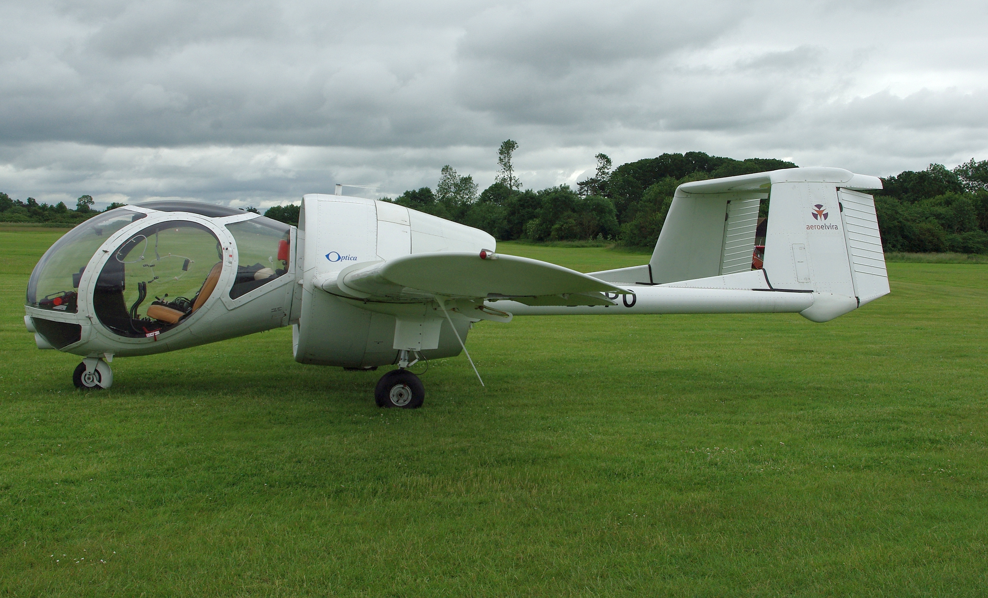 Optica G-BOPO at Old Warden, 15 June 2014